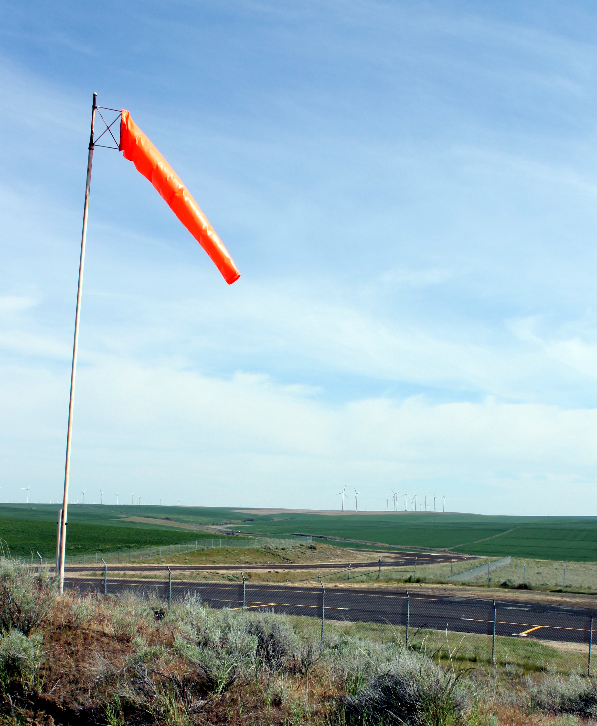 Windsock and taxiway at Wasco State Airport near Wasco, Oregon.